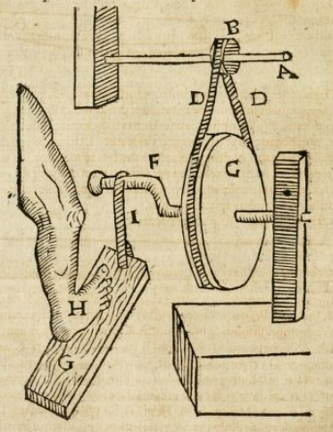 Instrument for cutting stones, illustration from the Gemmarum et lapidum historia by Anselmus de Boodt, 1609, p. 56